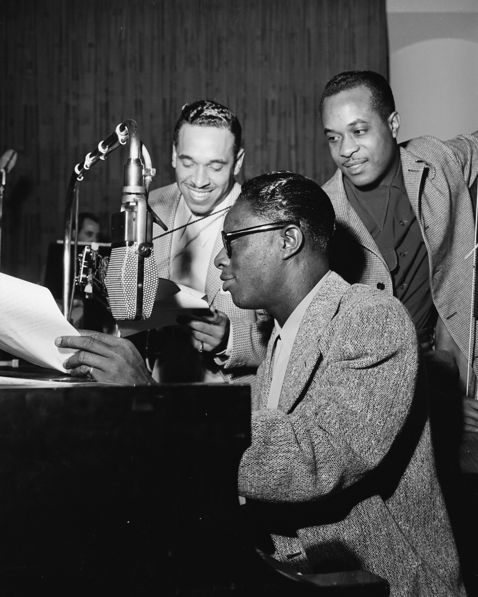 Portrait of Oscar Moore, Nat King Cole, and Wesley Prince, New York, N.Y., ca. July 1946 / William P. Gottlieb